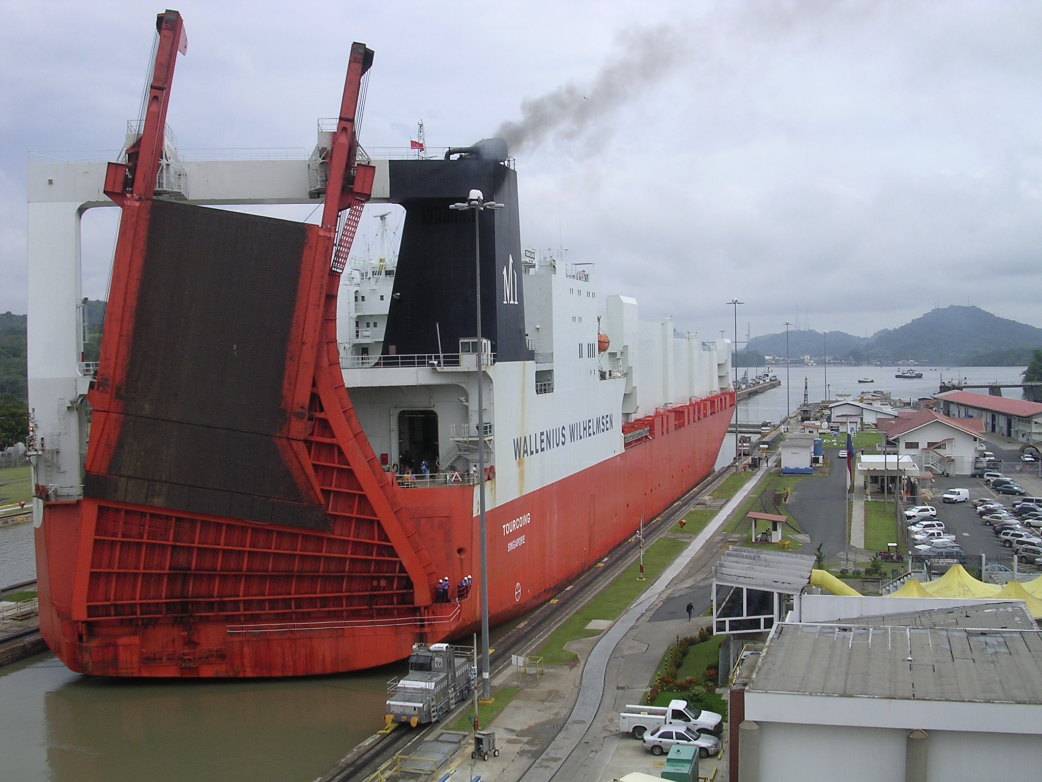 Tourcoing at Miraflores Locks, Panama in 2005